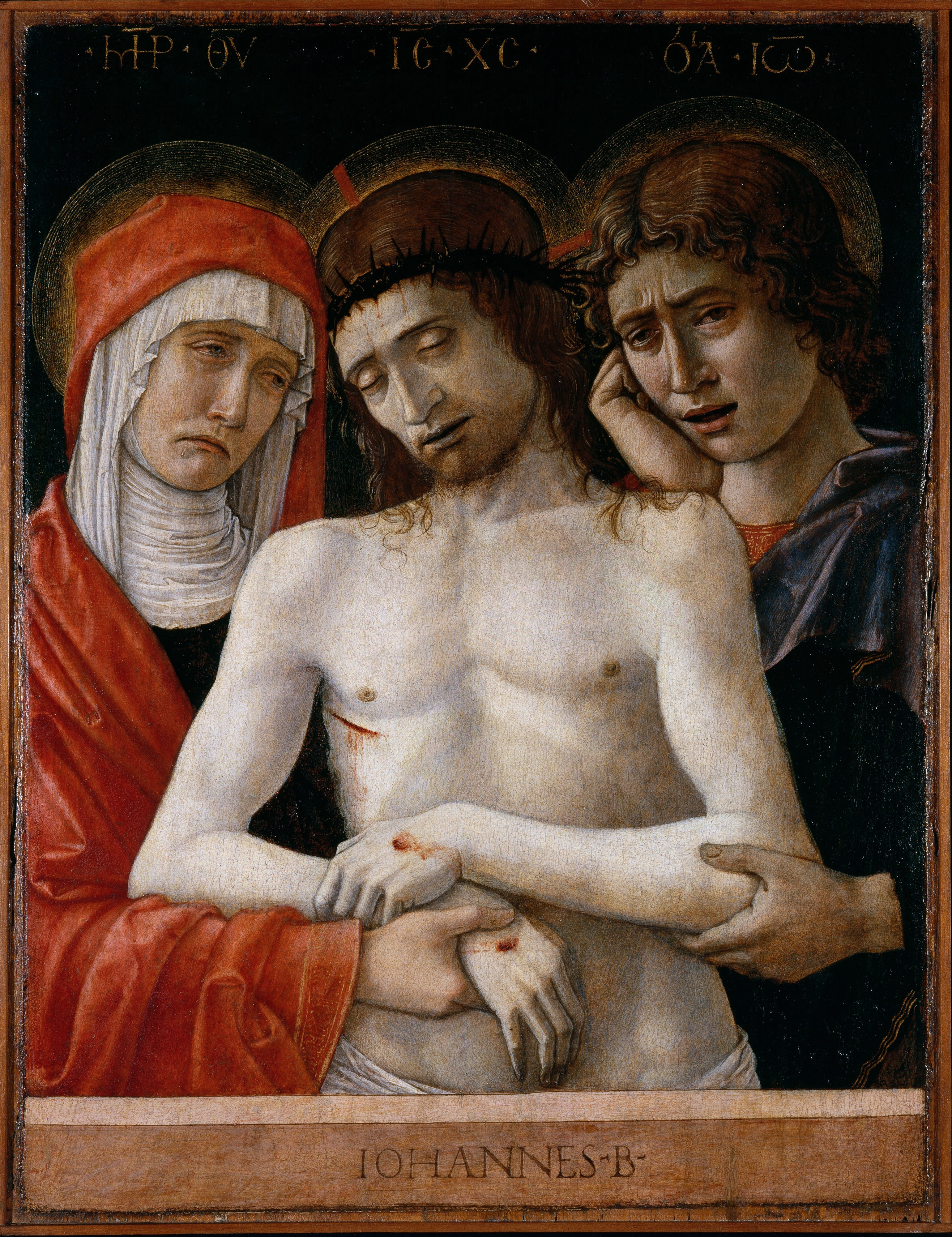 BELLINI, Giovanni Dead Christ Supported by the Madonna and St John (Pietà) Tempera on wood, 52 x 42 cm Accademia Carrara, Bergamo